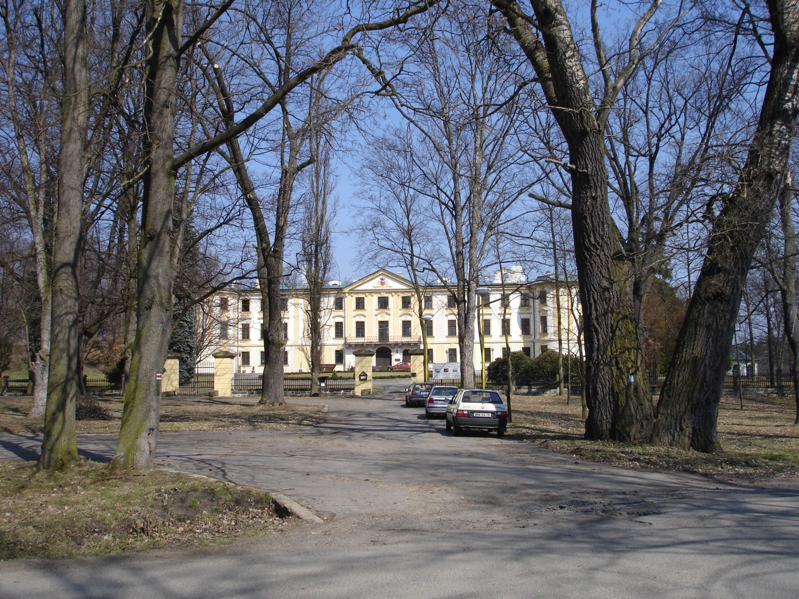 castle in Zahradky, czech republic